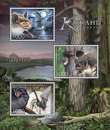 Stamp of Belarus